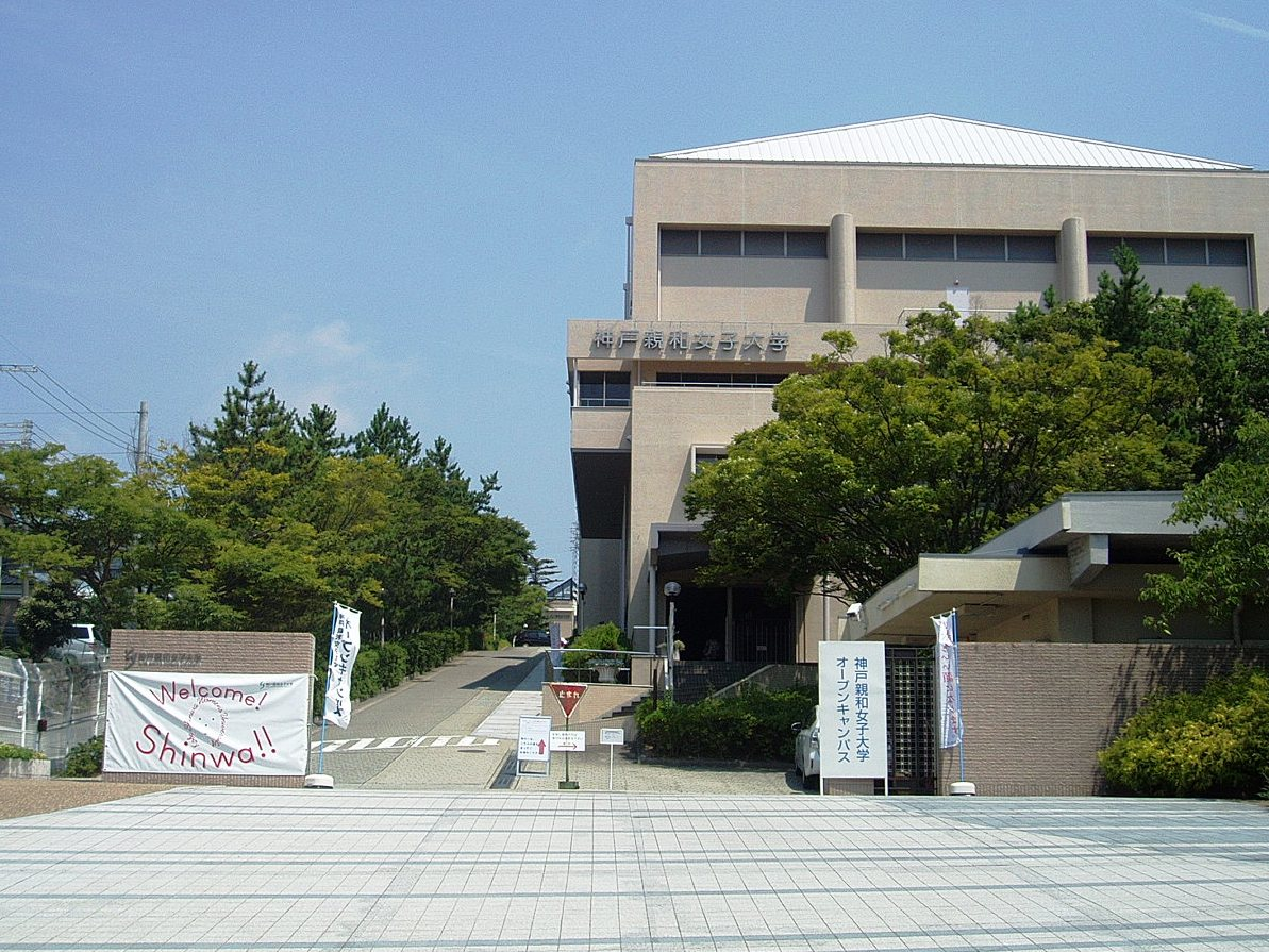 Entrance to Kobe Shinwa Women's University, located in Kita-ku, Kobe, Hyogo, Japan.